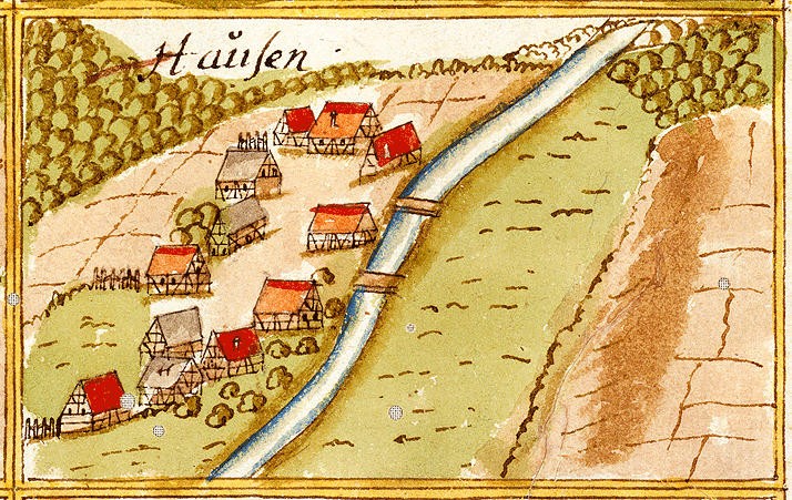 View of Hausen, Murrhardt, from the forest register books created by Andreas Kieser